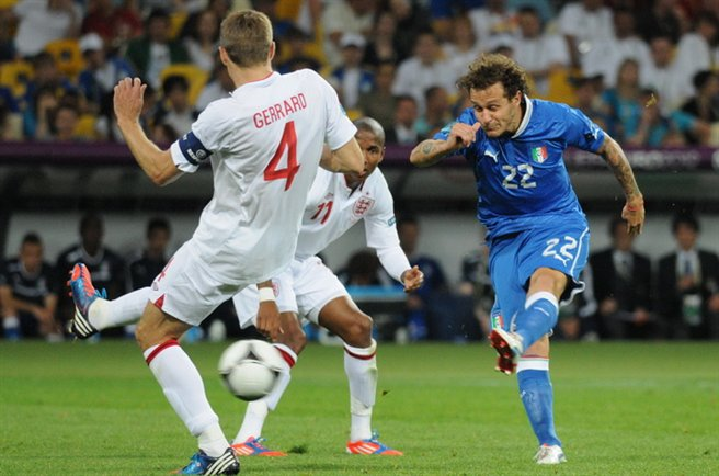 Alessandro Diamanti shot at Euro 2012 match against England